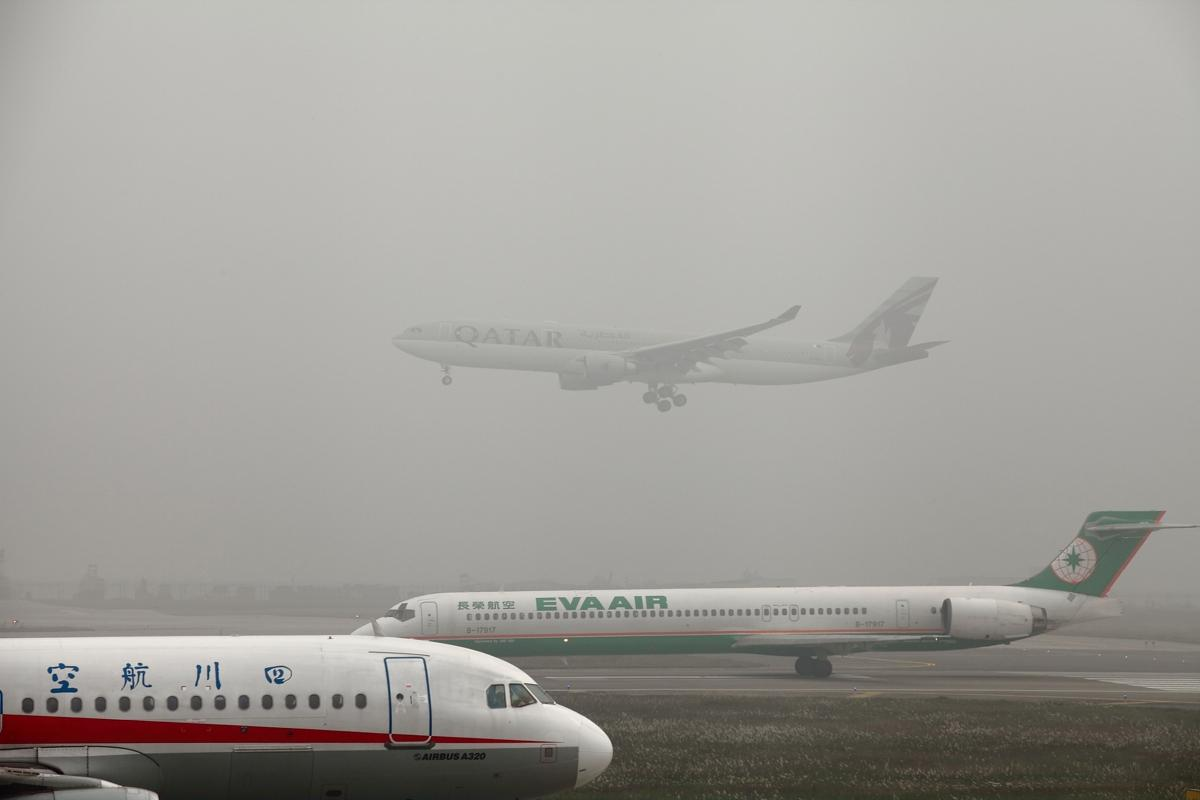 Qatar Airways started operating flights between Chongqing and Doha in November 2011.